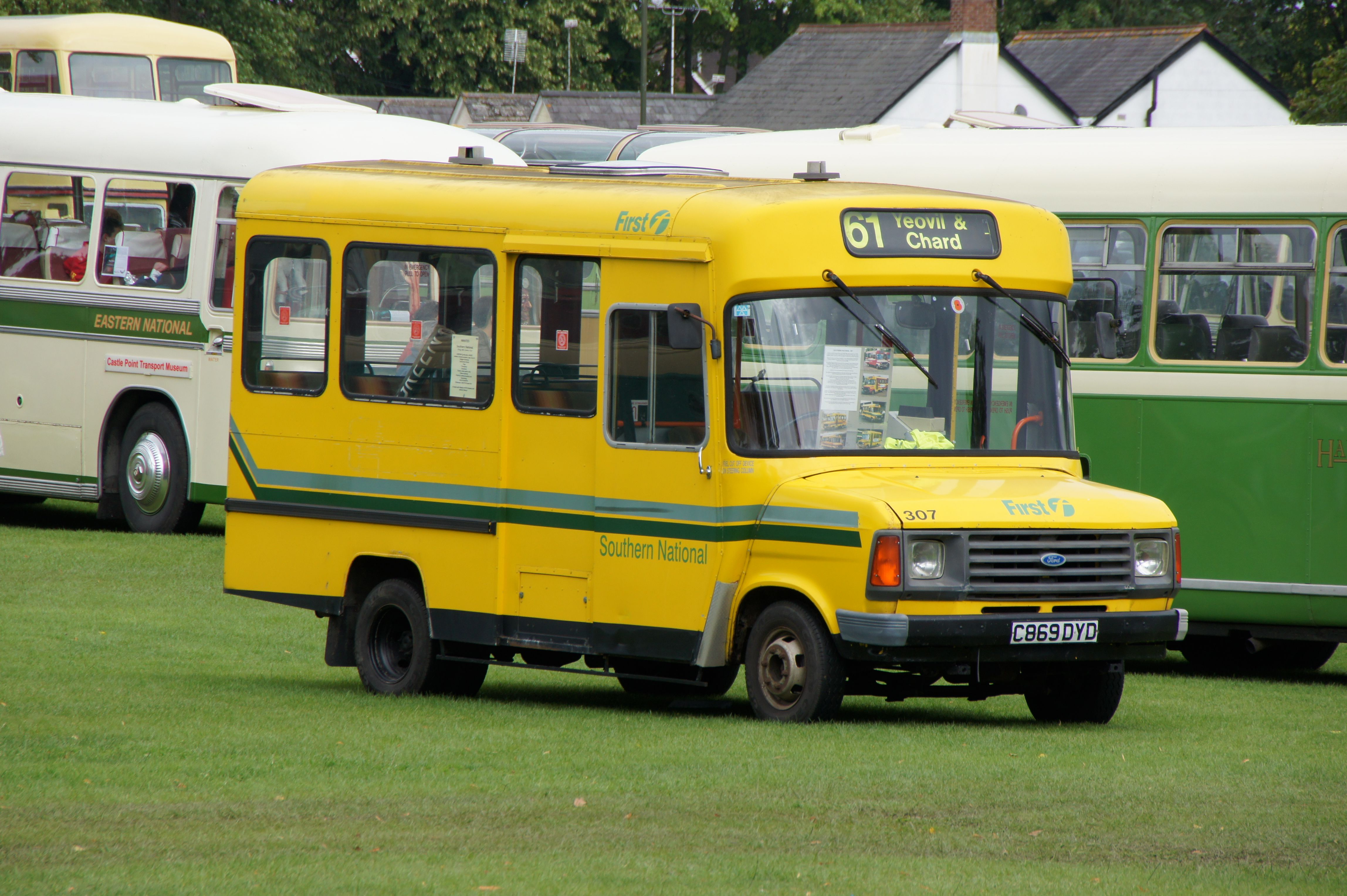 Preserved First Group Southern National bus 307 (reg. C869 DYD), a 1985 Ford Transit minibus with Robin Hood / Dormobile boodywork, pictured at the 2011 Alton bus rally.